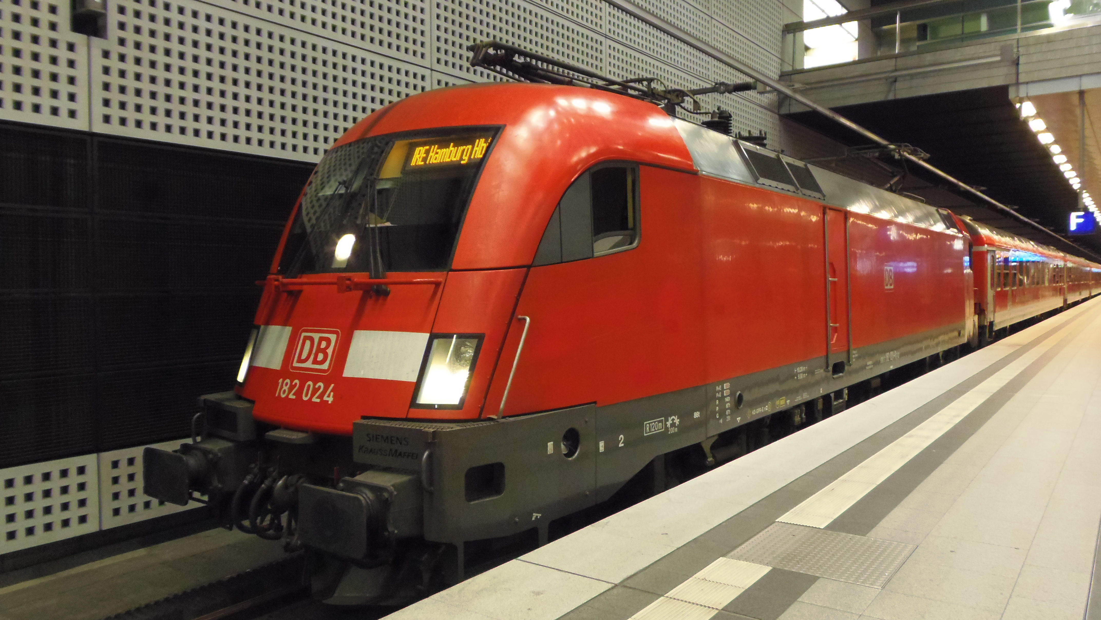 IRE Berlin-Hamburg in Berlin main station